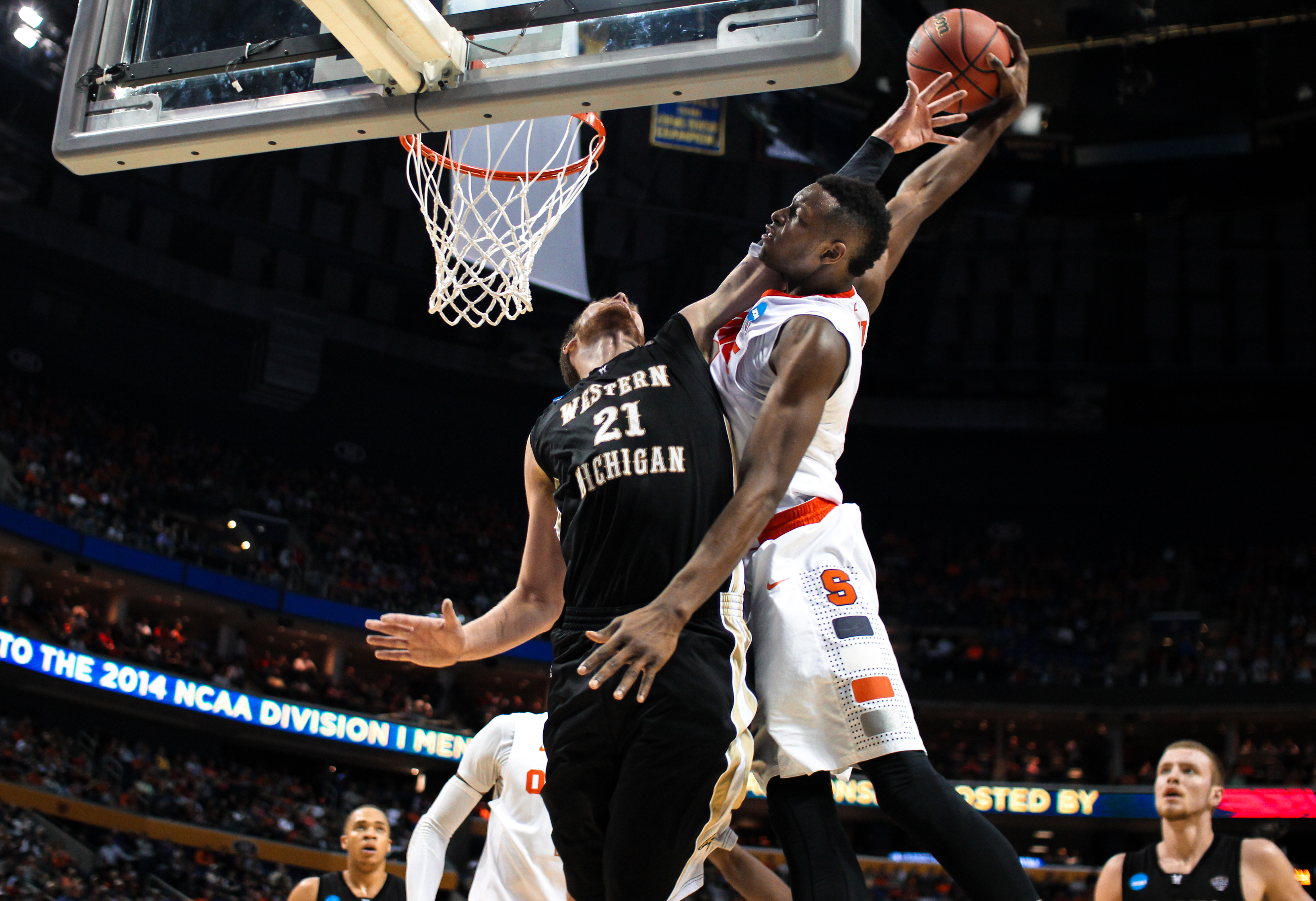 Syracuse playing against Western Michigan